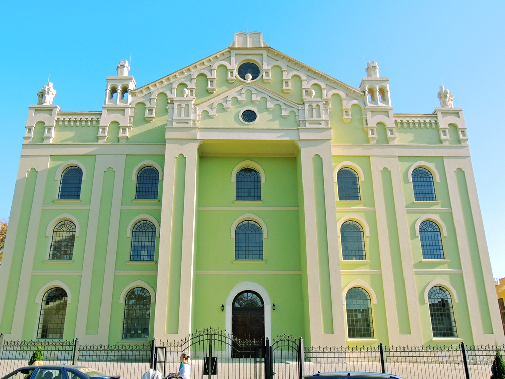 The Choral Synagogue in Drohobych, Lviv Oblast in Ukraine, is the most impressive of the Jewish structures in the town.